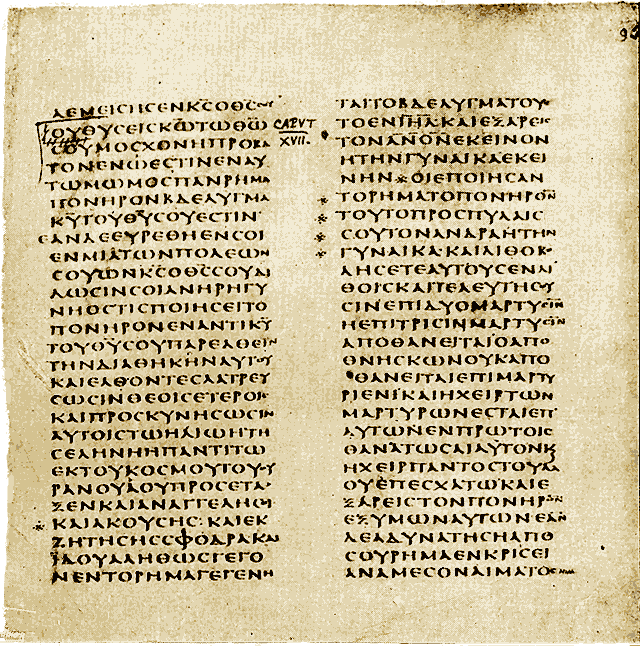 Codex Colberto-Sarravianus